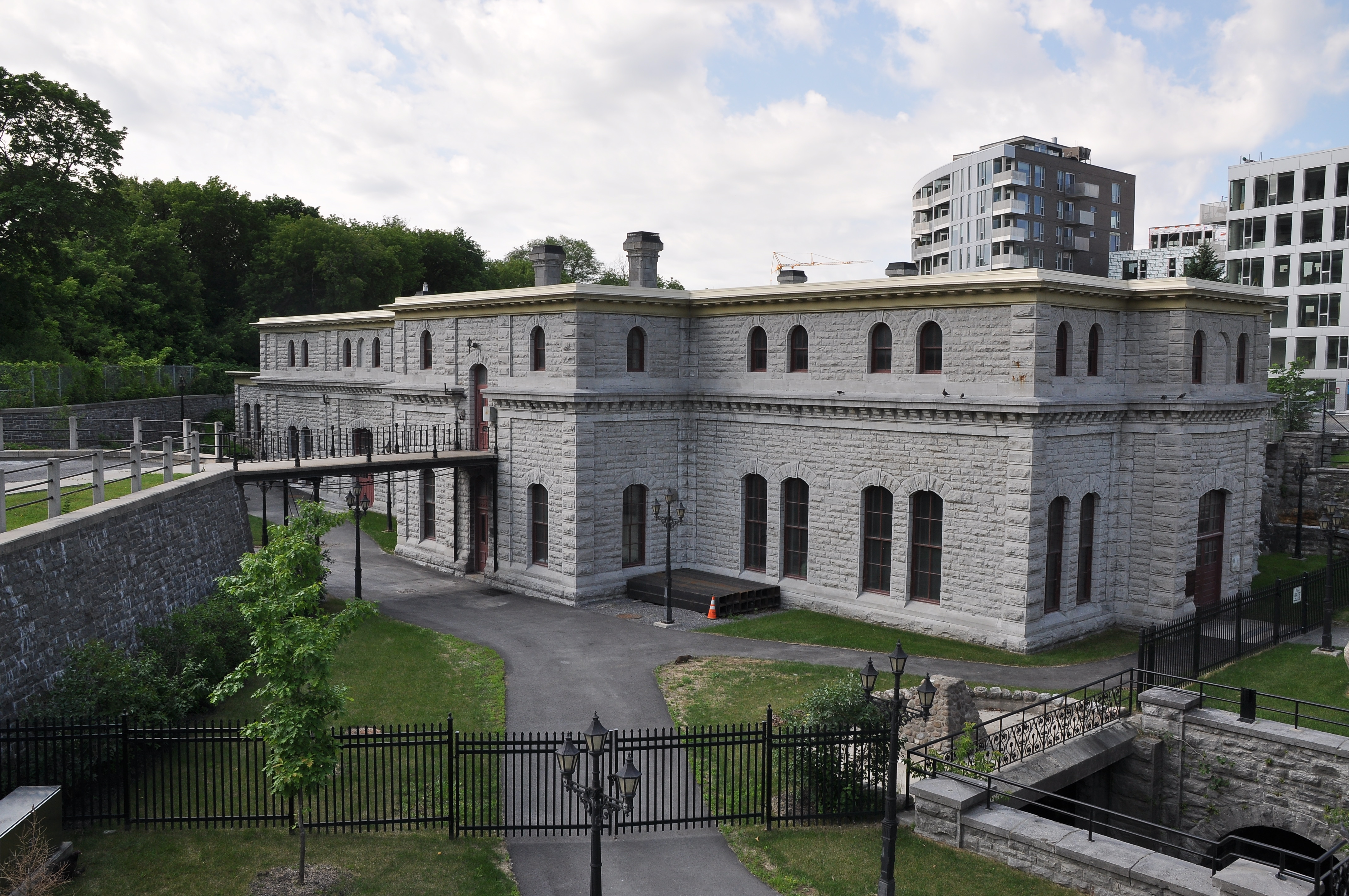 A far shot of Ottawa's Fleet St. Pumping Station. Actually, I didn't even know it was there! It is safely tucked away in an isolated plate, off the main road and just off and beyond Queens St. The station is served by an open 750-metre long aqueduct, taking water from the level of the Ottawa River above the Chaudiere Falls. The American Eel has been discovered lurking in the lower recesses of the Fleet Street Pumping Station. Spawned in gyre in the midst of the North Atlantic Ocean, they can migrate into the middle of the North American continent and back out to sea - a journey that can take 20-40 years. The eels were uncovered when the system was drained for repairs. It's provided a rare view into what happens below the water line. Now isn't that fascinating! (Ottawa, Canada, June 2015)